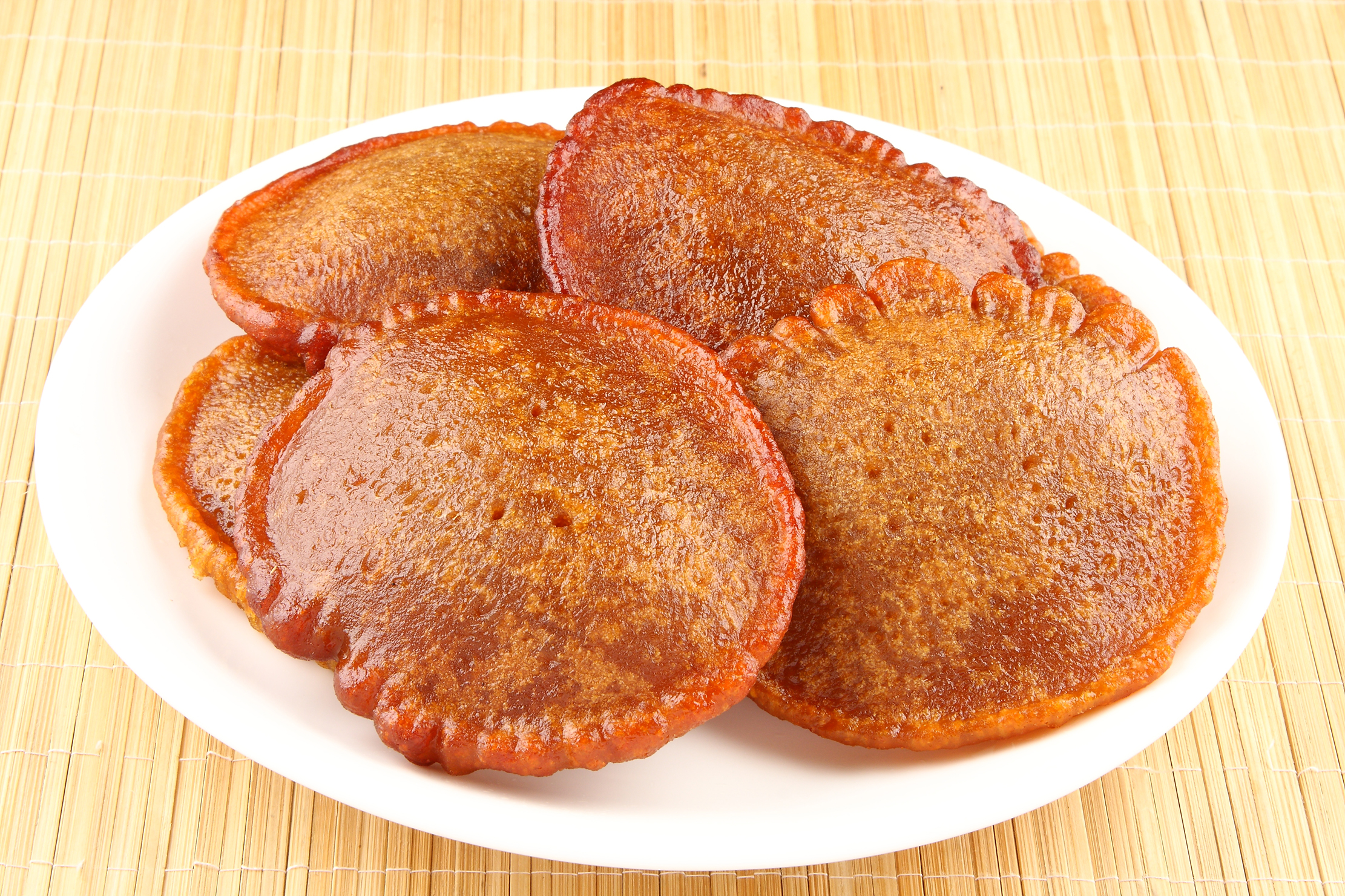 Neyyappam is a Kerala speciality. It is a signature Syrian Christian food as per K. T. Achaya. These are rice pancakes fried in ghee. A batter of pouring consistency is made of rice flour and jaggery. Cardamom and dried ginger are added for flavour